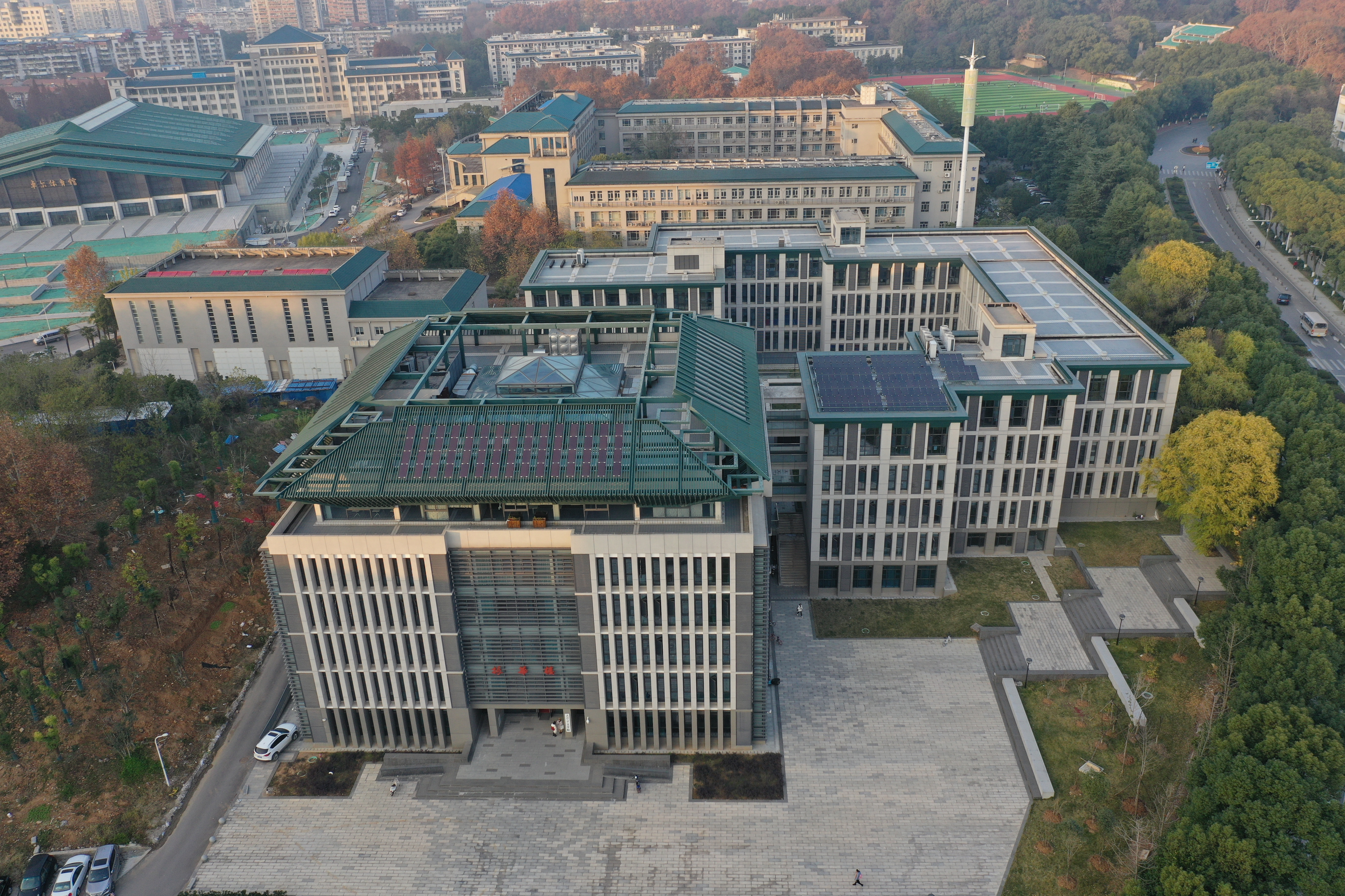 Wuhan University new humanities building